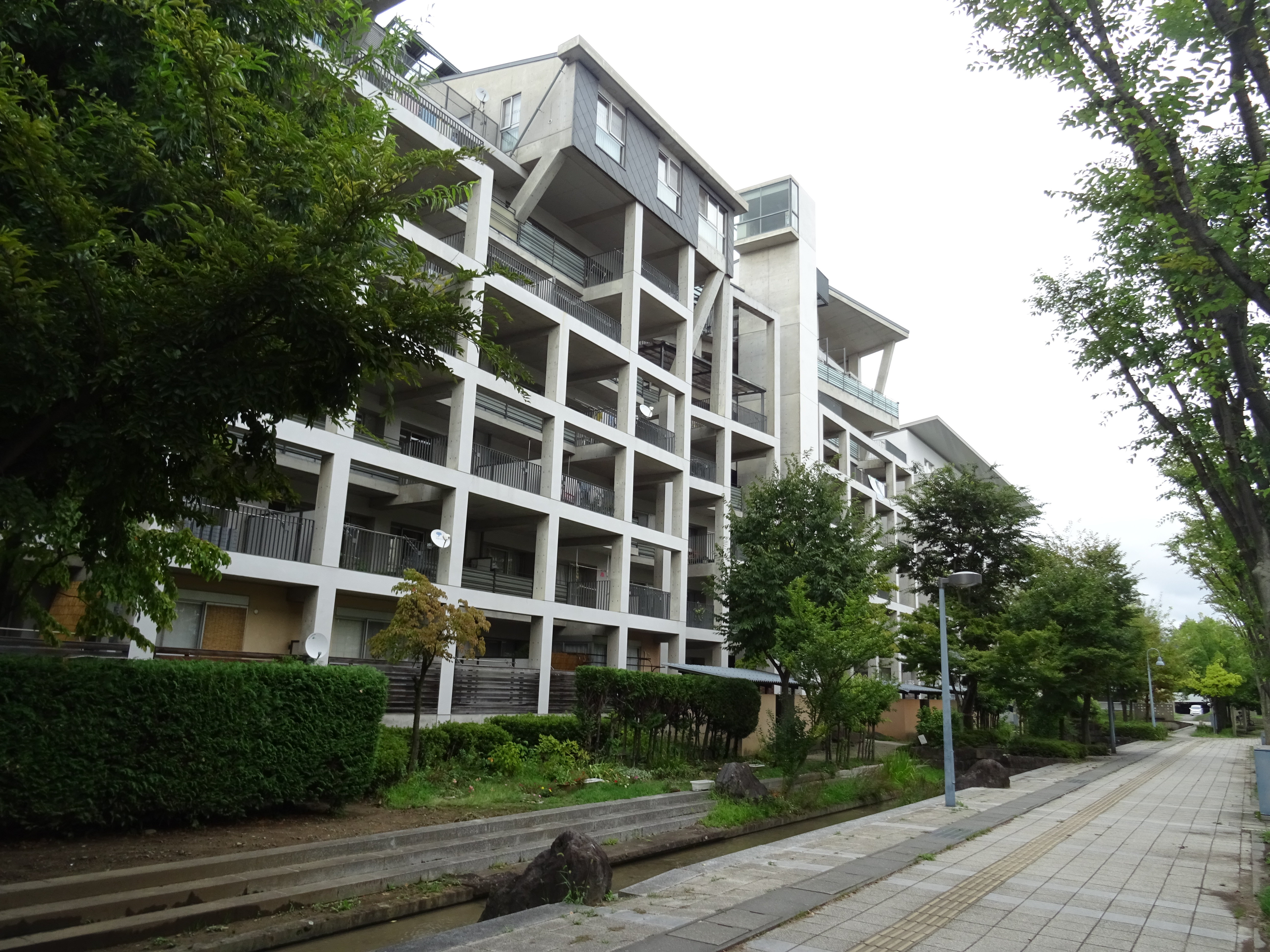 Buildings used as the Olympic village of the 1998 Winter Olympics in Nagano.